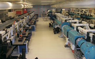 View of the LULI2000 laser hall in LULI laboratory- Ecole Polytechnique - Palaiseau - France.